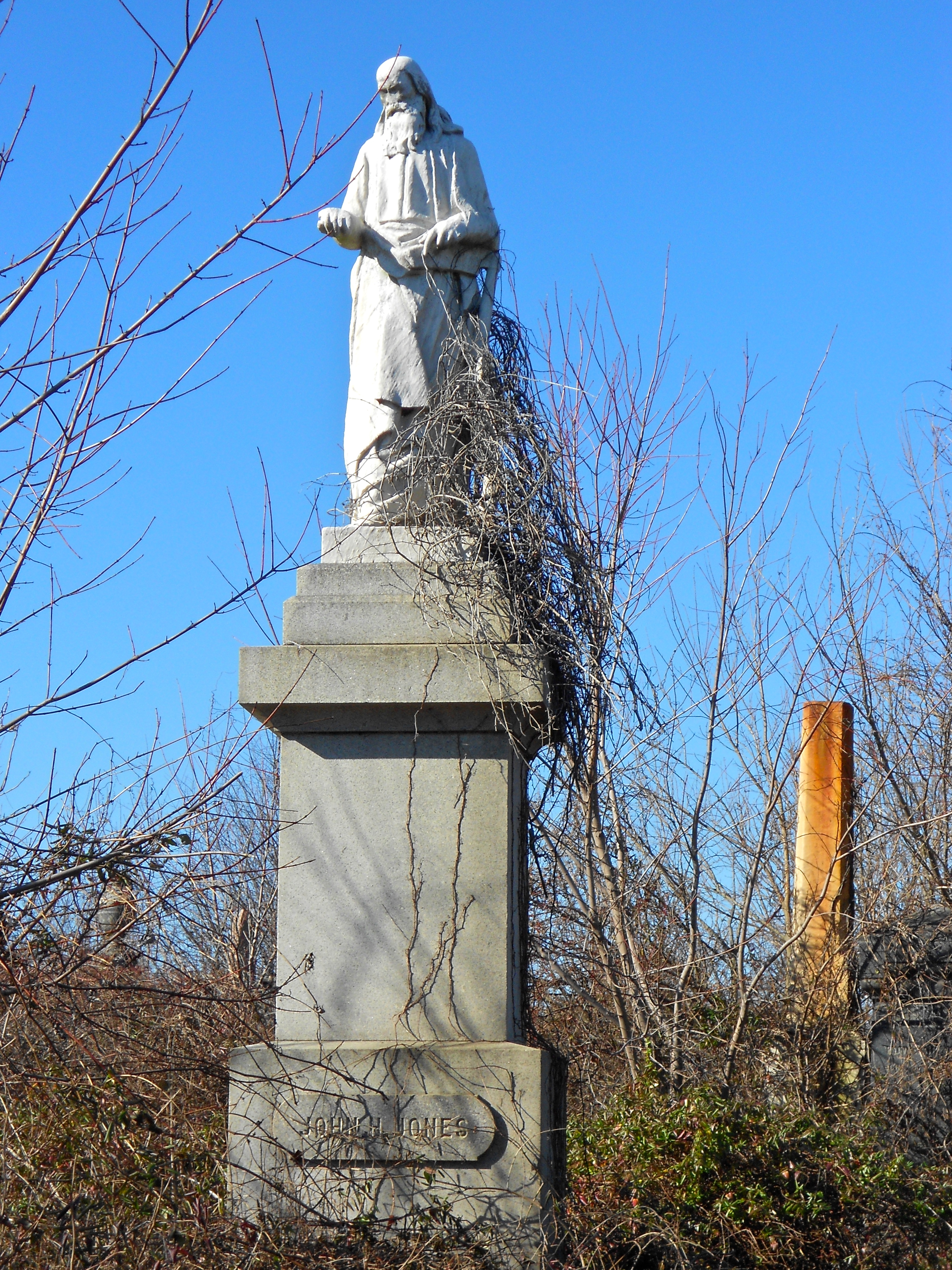 Grave in the Mt. Moriah Cemetery in Philadelphia